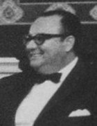 left to right: Richard Nixon, Anastasio Somoza Debayle, Alexander M. Haig, Jr.